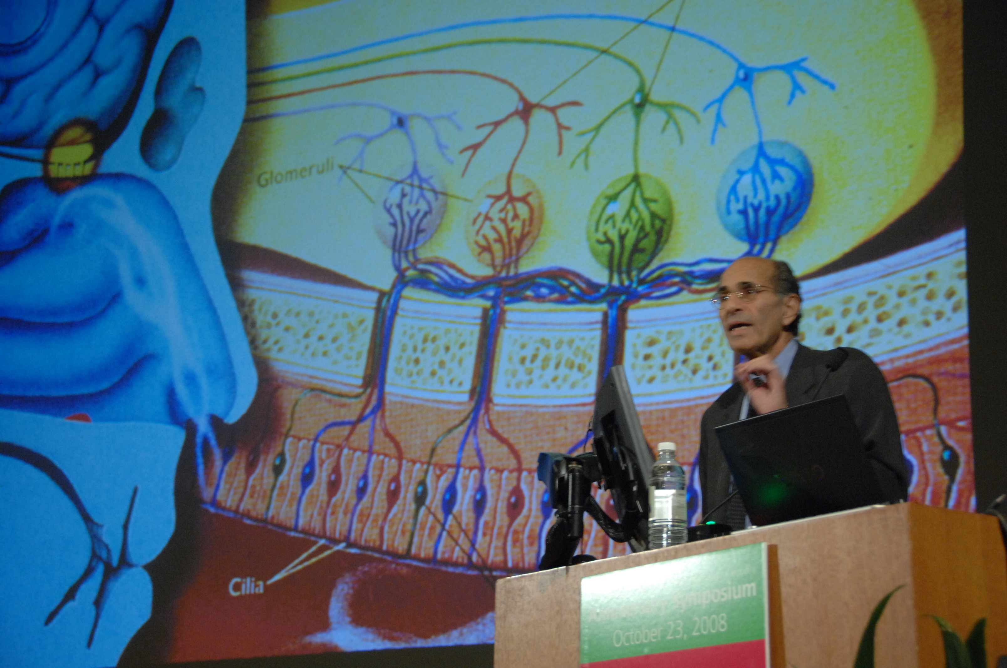 Dr. Richard Axel, university professor and investigator in the Howard Hughes Medical Institute, Columbia University, spoke on "Internal Representations of the Olfactory World" at the NIDCD 20th Anniversary Symposium. Dr. Axel is a recipient of the 2004 Nobel Prize in Physiology or Medicine for his groundbreaking research on the sense of smell.